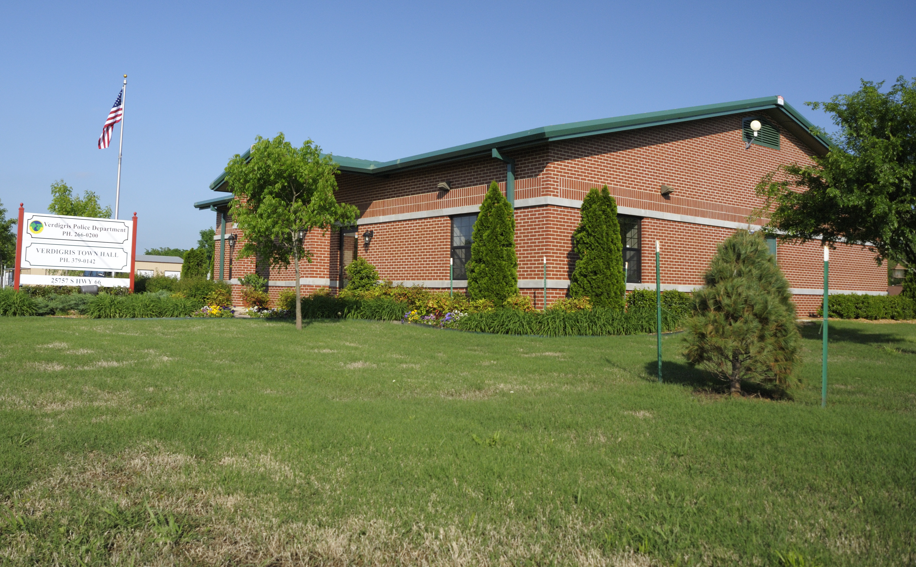 Image of Town Hall in Verdigris, Oklahoma